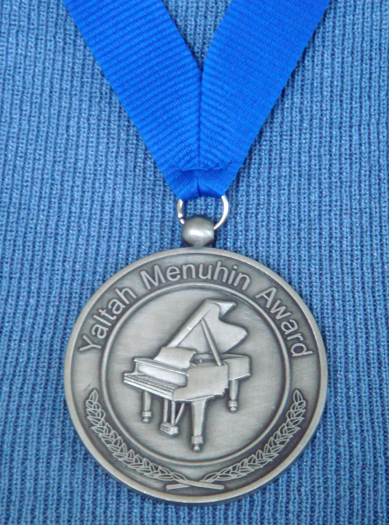 Yaltah Menuhin Award medal.